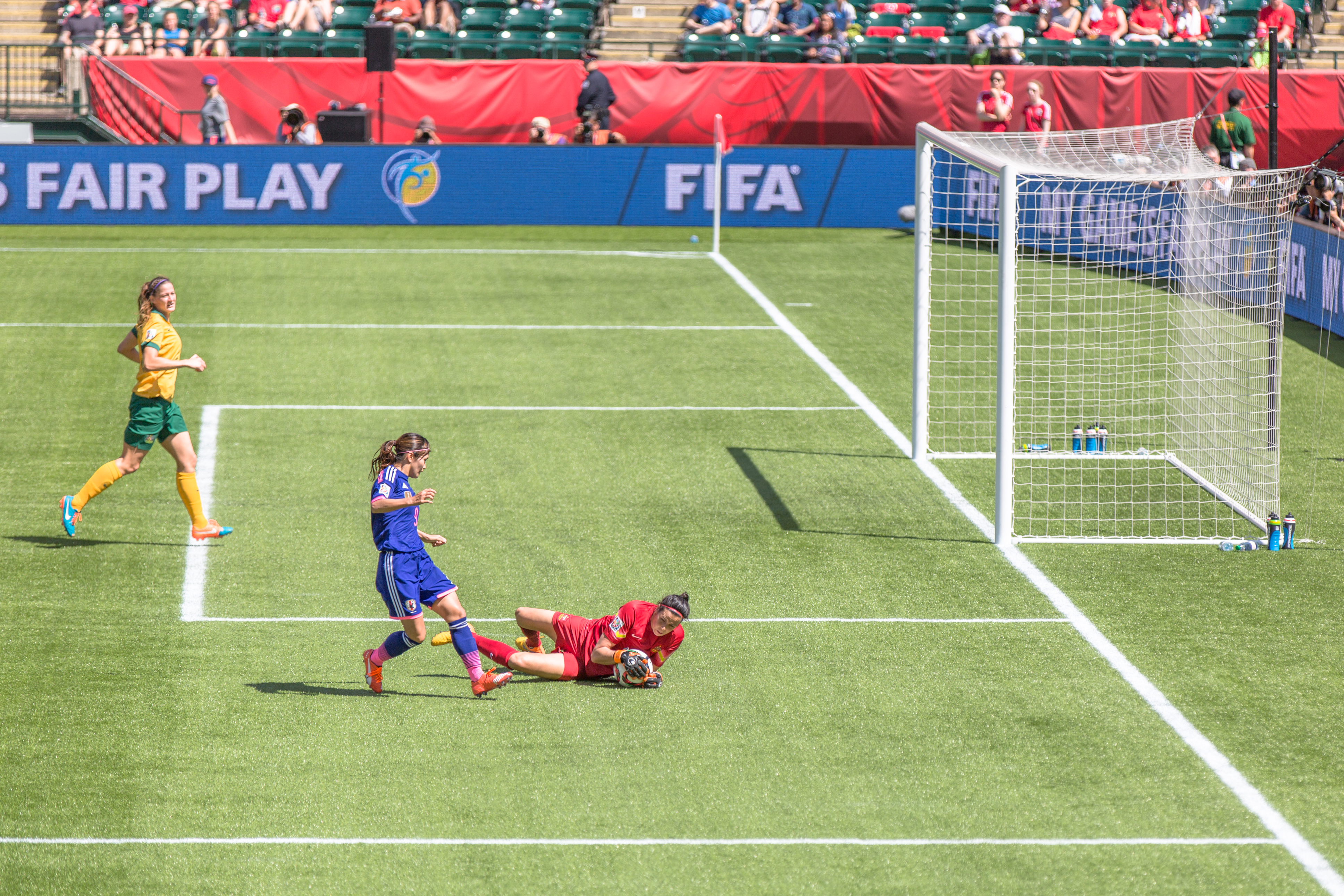 The 2015 FIFA Women's World Cup is the seventh FIFA Women's World Cup, the quadrennial international women's football world championship tournament. The tournament will be held from 6 June to 5 July 2015. Japan vs Australia Match Highlights